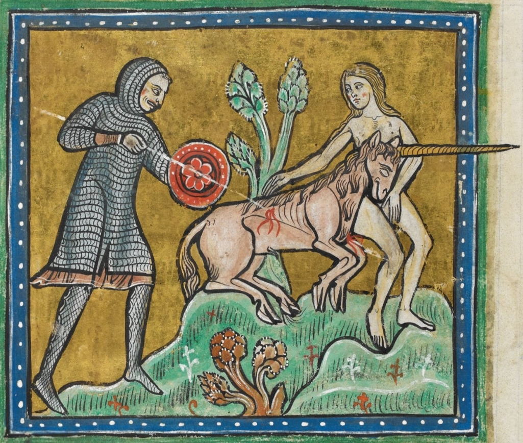 Illustration of a unicorn hunt; detail of a miniature from the Rochester Bestiary, BL Royal 12 F xiii, f. 10v. Held and digitised by the British Library.